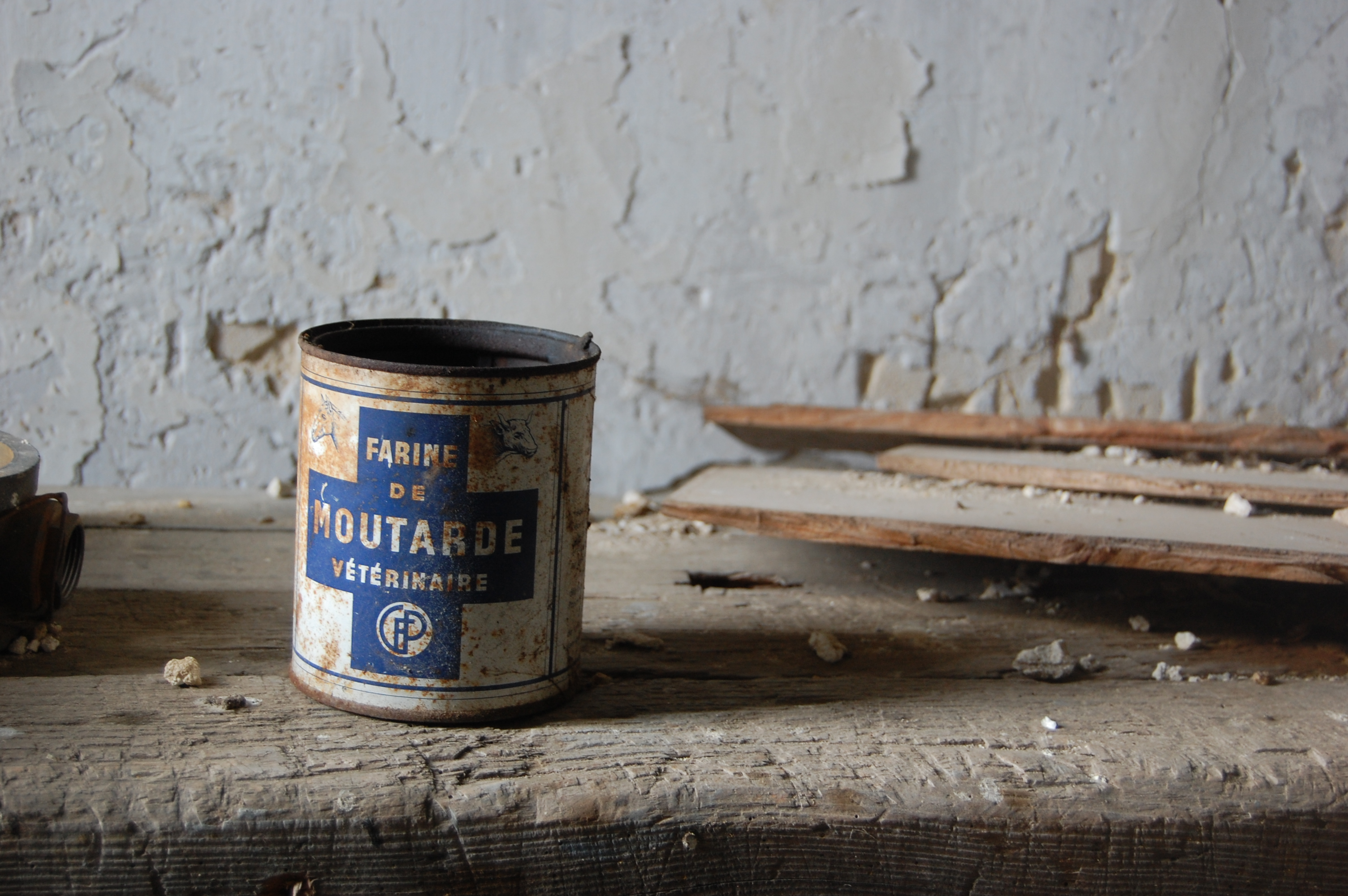 Old tin with black mustard flour (Brassica nigra) used as remedy in veterinary medicine (preparation of mustard plasters